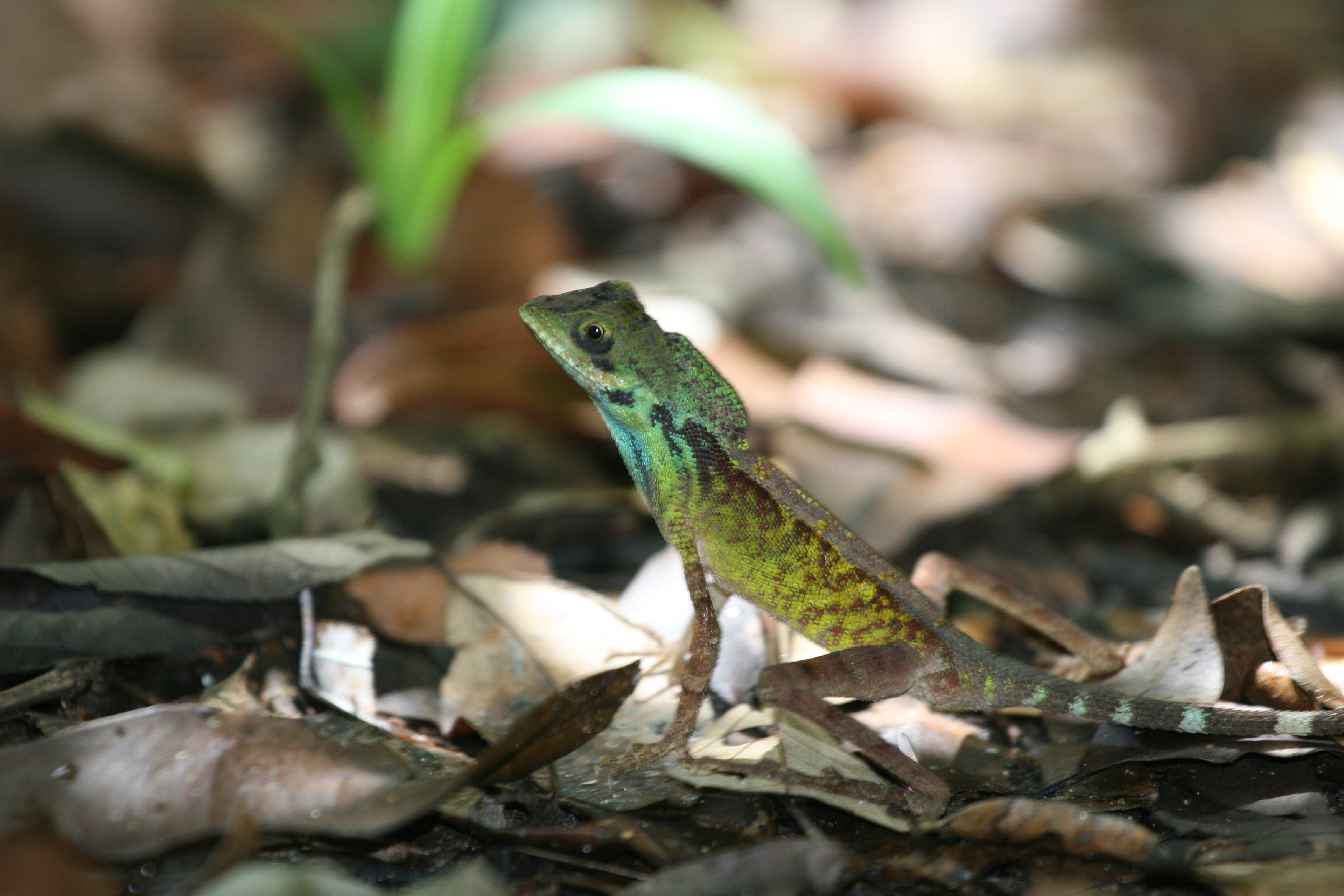 Otocryptis nigristimata at Kandalama